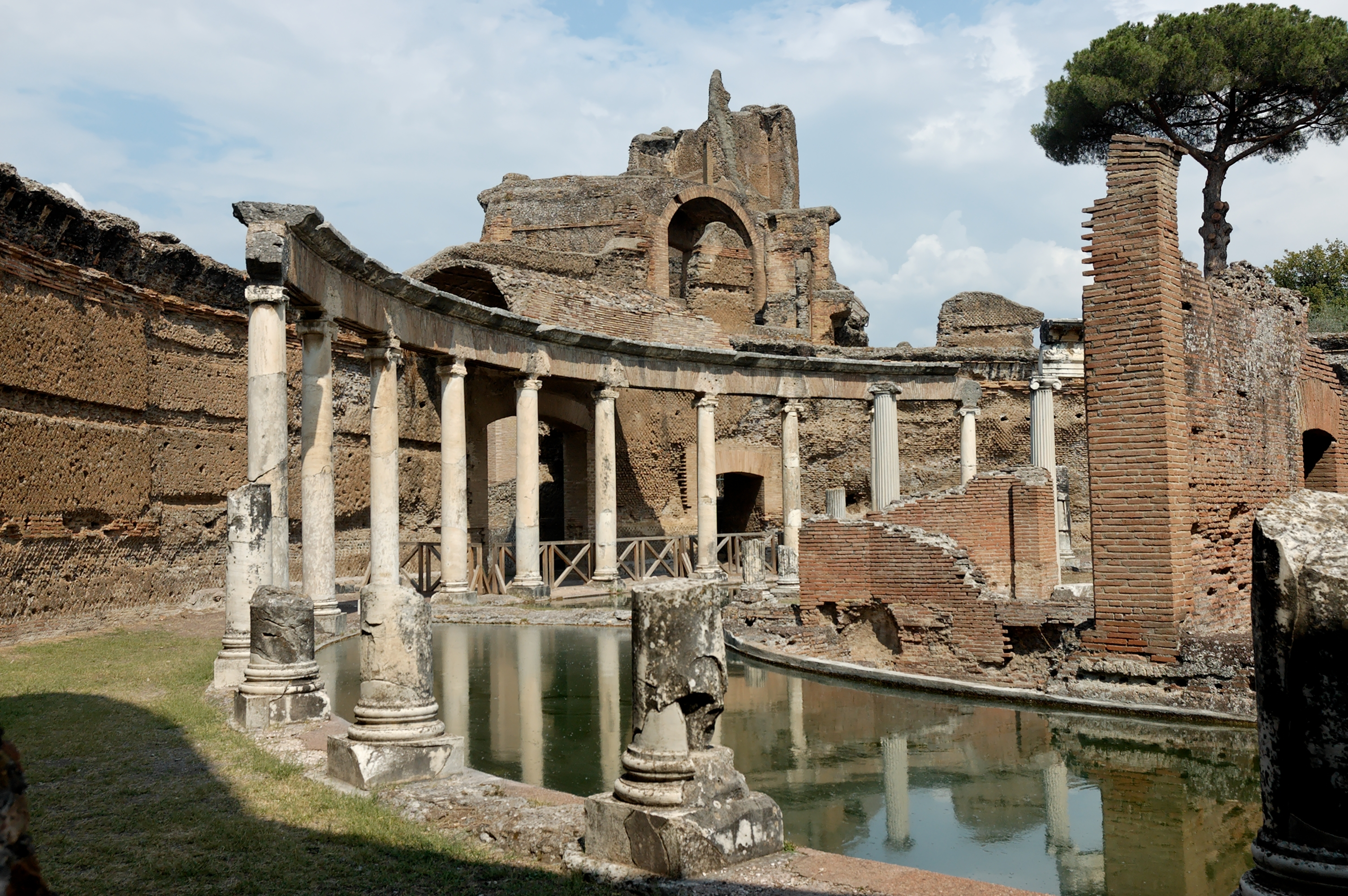 Maritime theater at the Villa Adriana in Tivoli. View from the South (Thermae with heliocaminus).